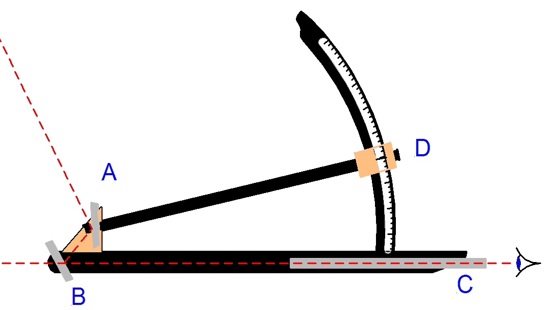 Drawing of a Thomas Godfrey reflecting quadrant (octant)